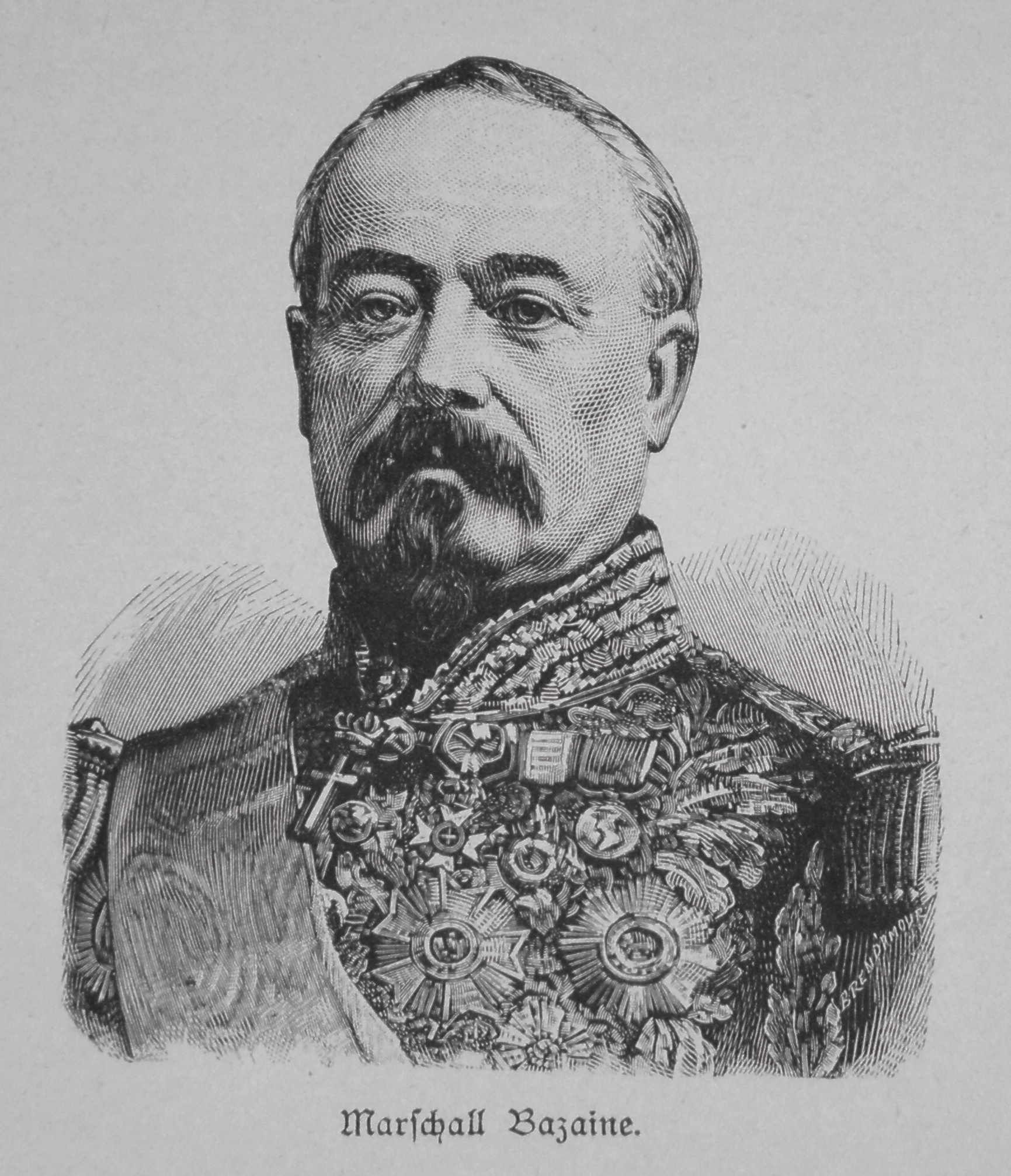 marshal Bazaine